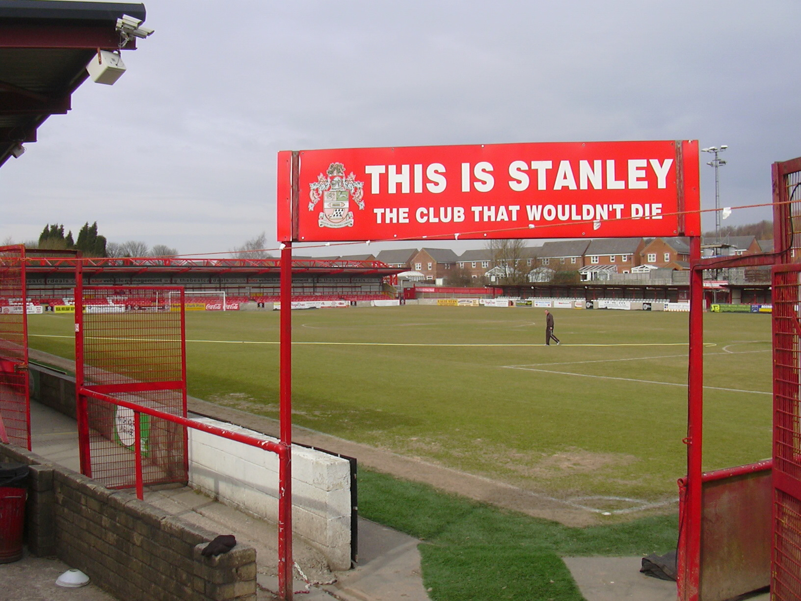 The Pitch, Accrington Stanley Football Club, Fraser Eagle Stadium, Livingstone Road, Accrington, Lancashire BB5 5BX